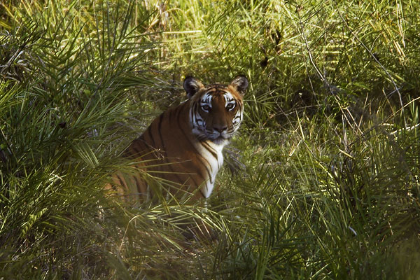 Tiger in Bandipur near Bolgudda